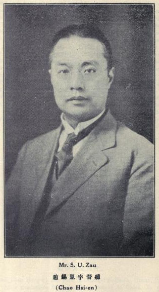 Zhao Xi'en (1883-?)